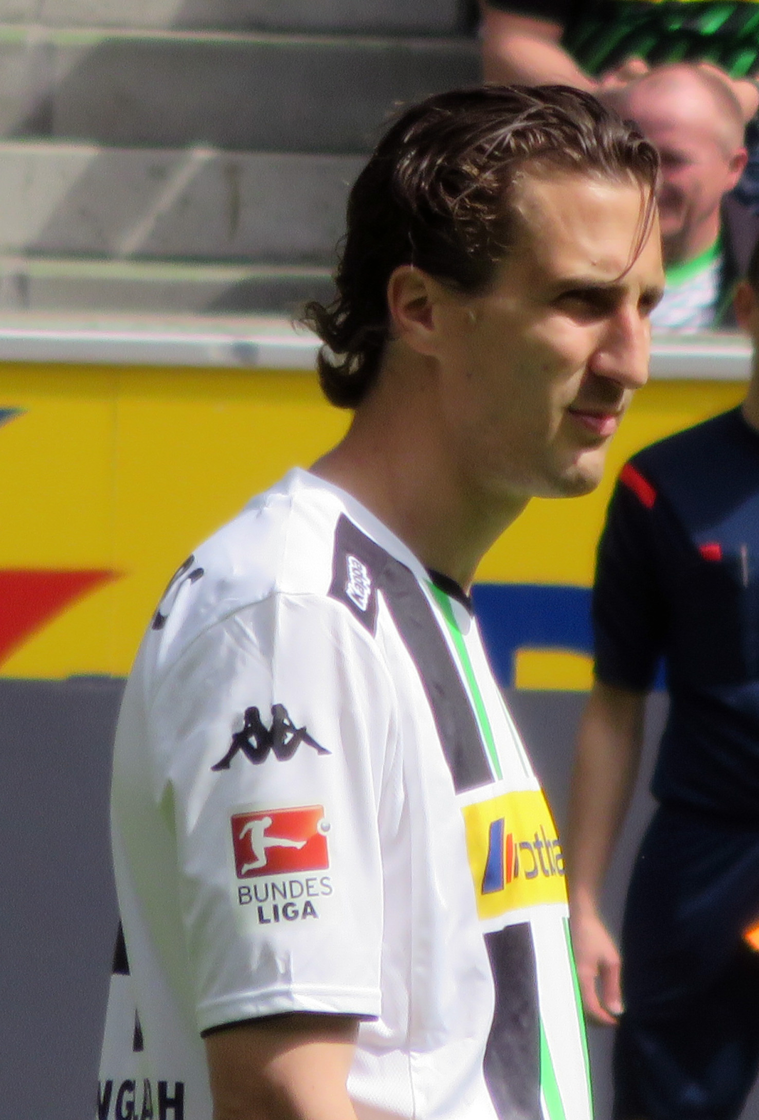 Roel Browers